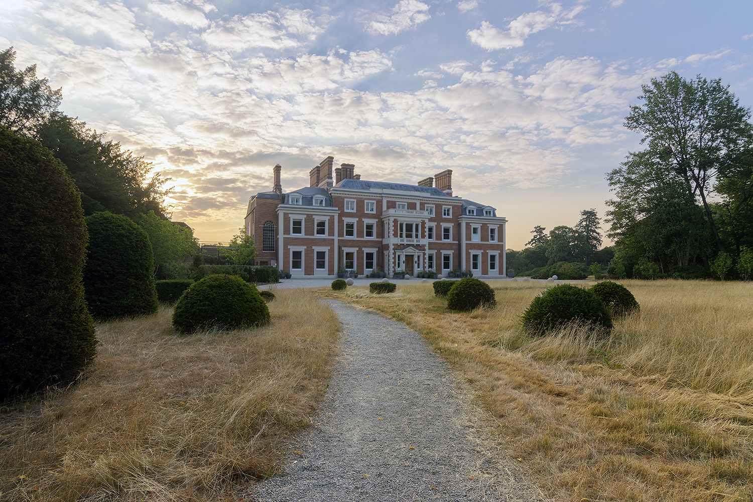 Manor House at morning